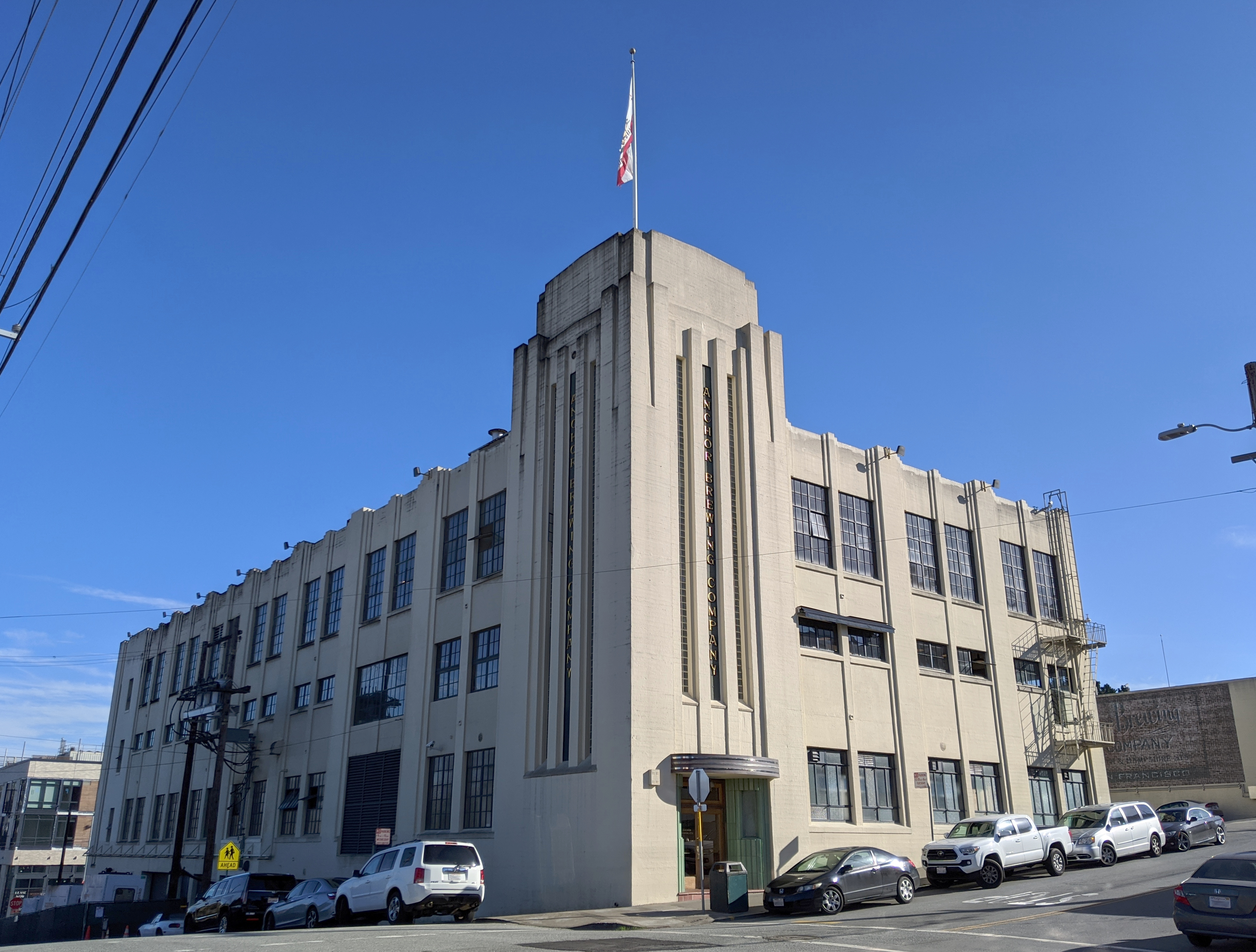 The building of the Anchor Brewing Company in San Francisco, seen across the intersection of Mariposa and De Haro. (image plates blurred)